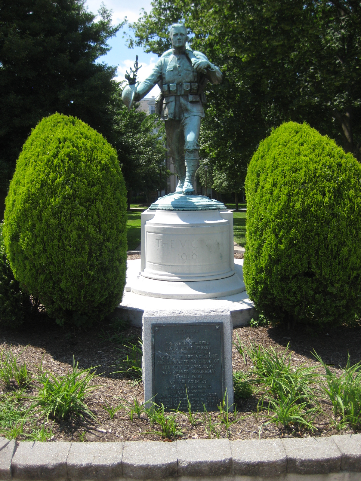 The Victor by R. Tait McKenzie, Woodbury, New Jersey War Memorial.